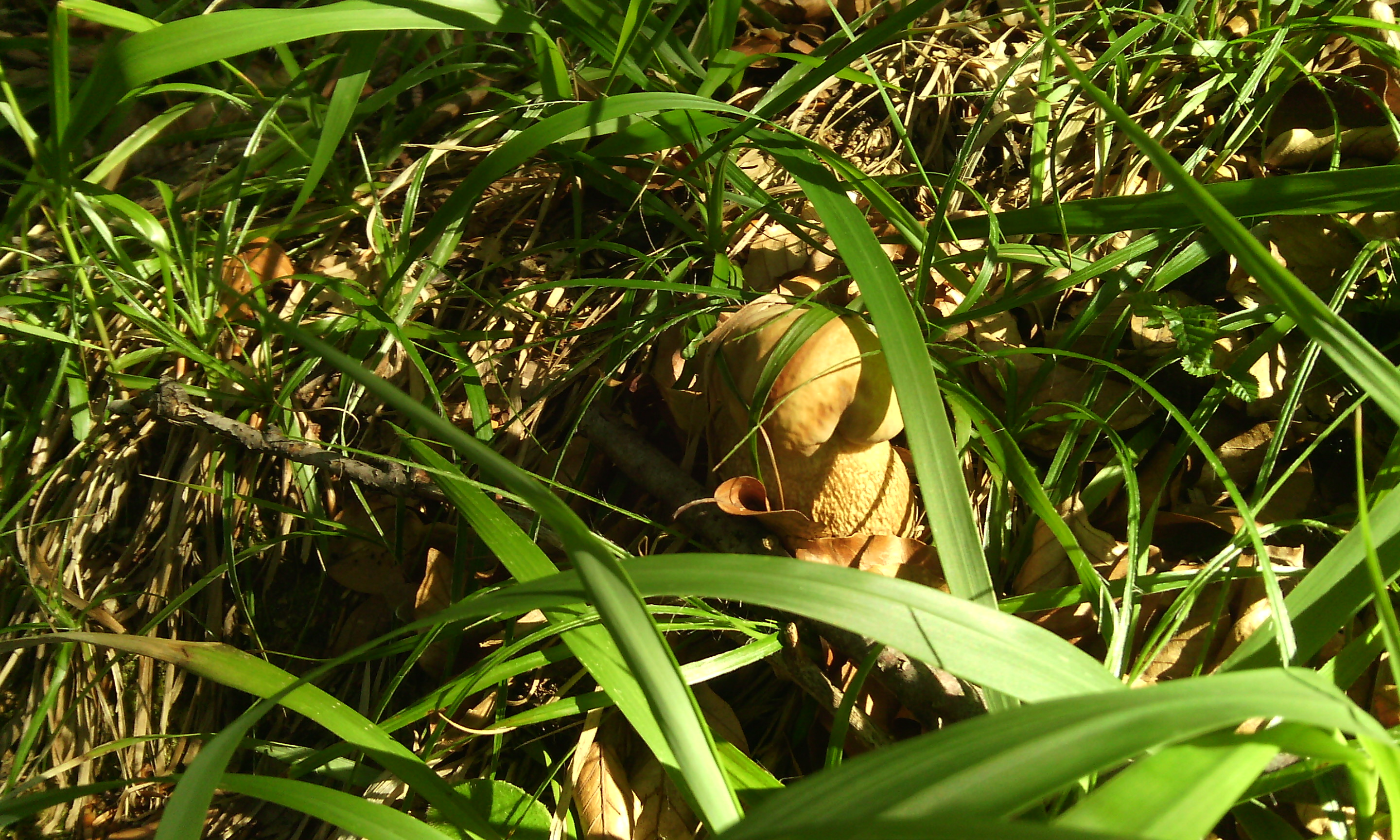 Boletus edulis